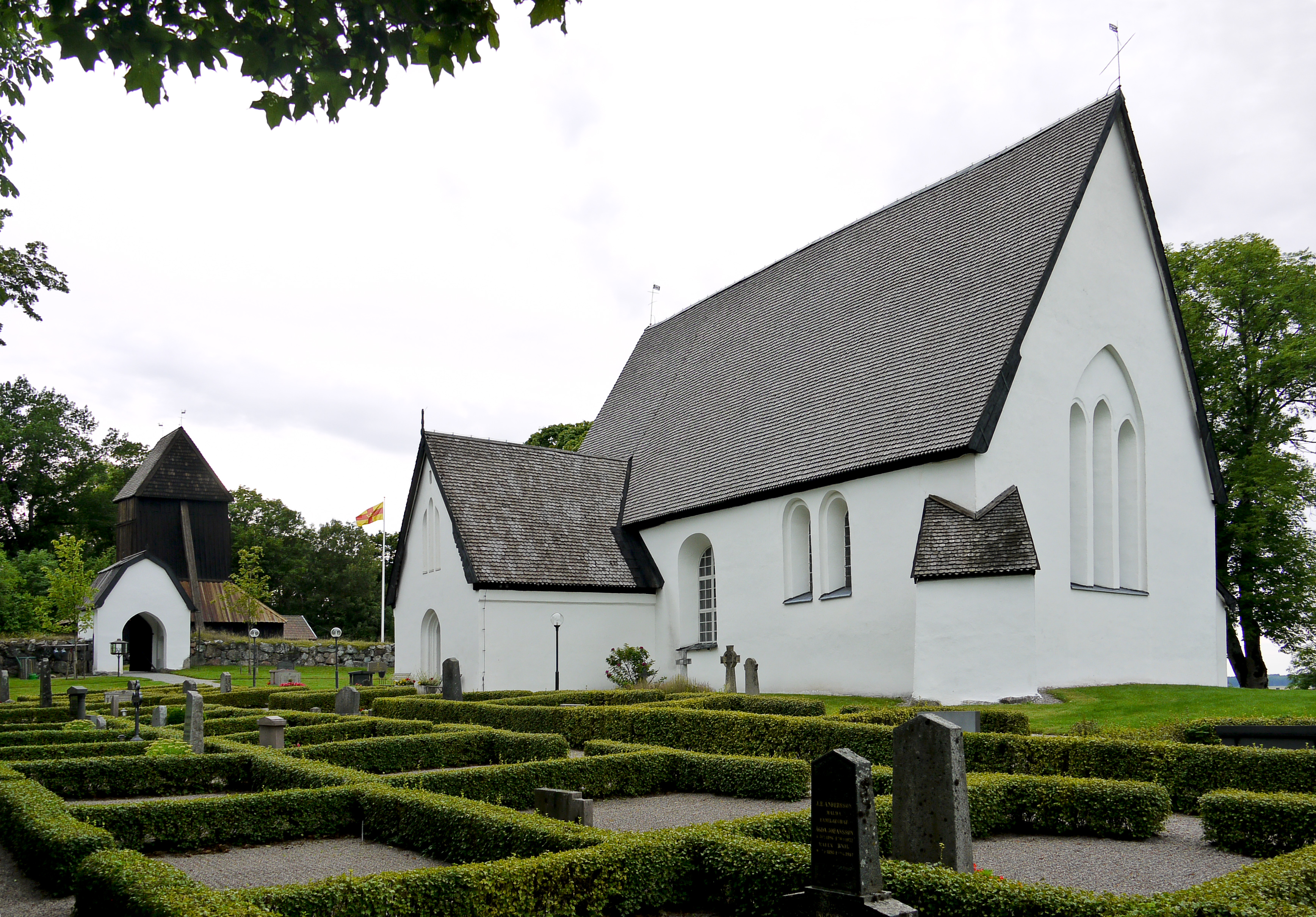 Härkeberga kyrka/church. Diocese of Uppsala, Enköping, Sweden.